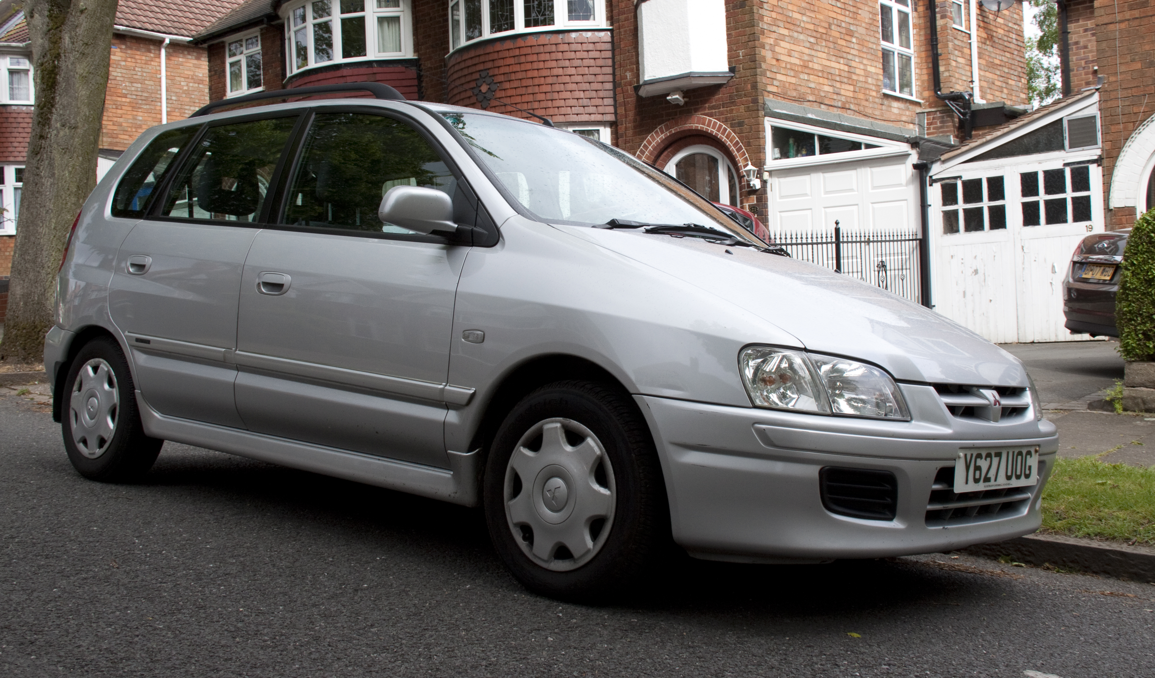 We have had this Mitsubishi Spacestar for 11 years, but its now time for it to go.